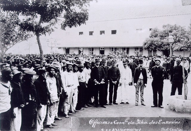 Image of prisoners taken during the Revolta da Armada (Navy Revolt) in Brazil (1893 - 1894)